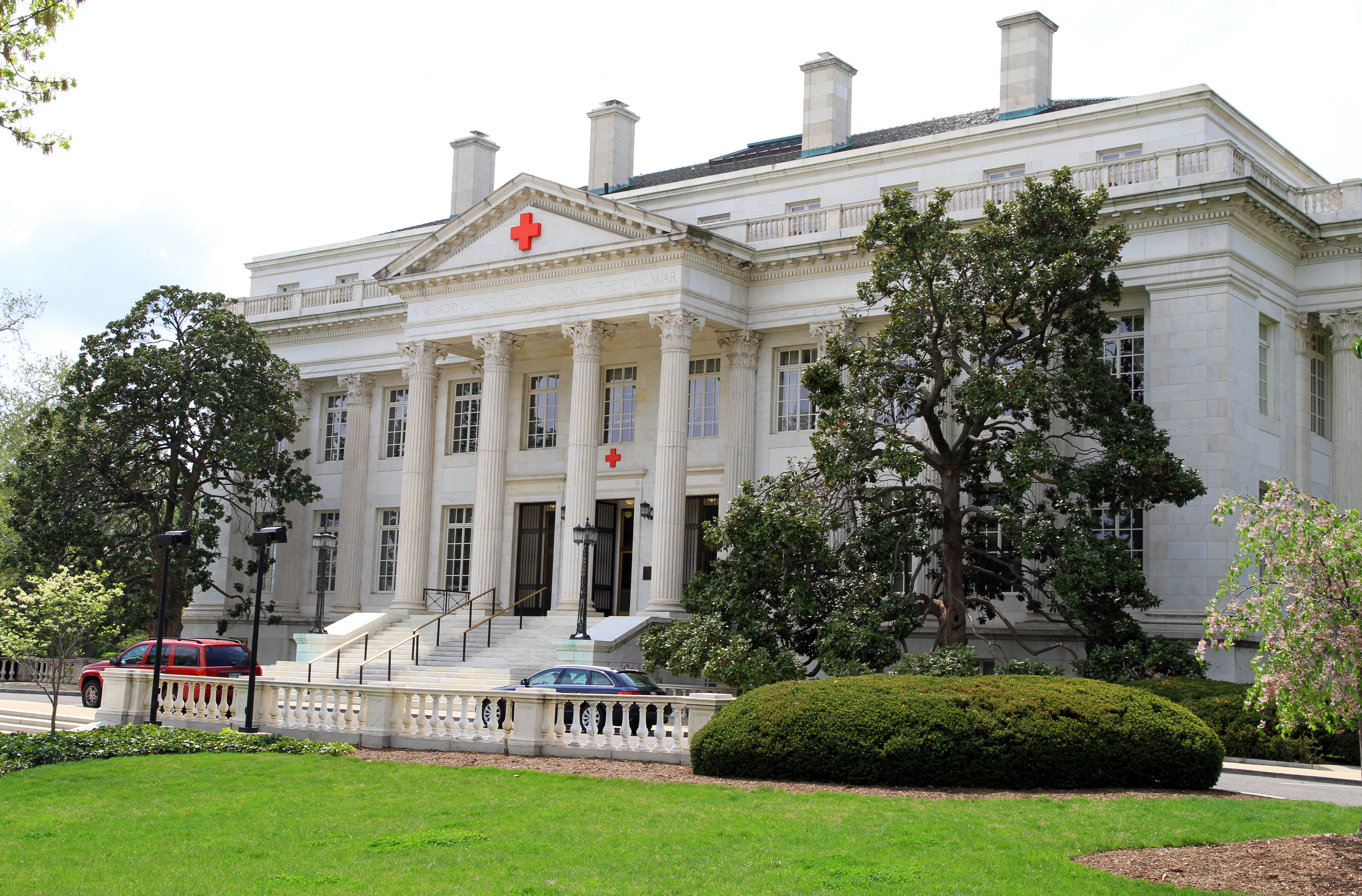 American National Red Cross